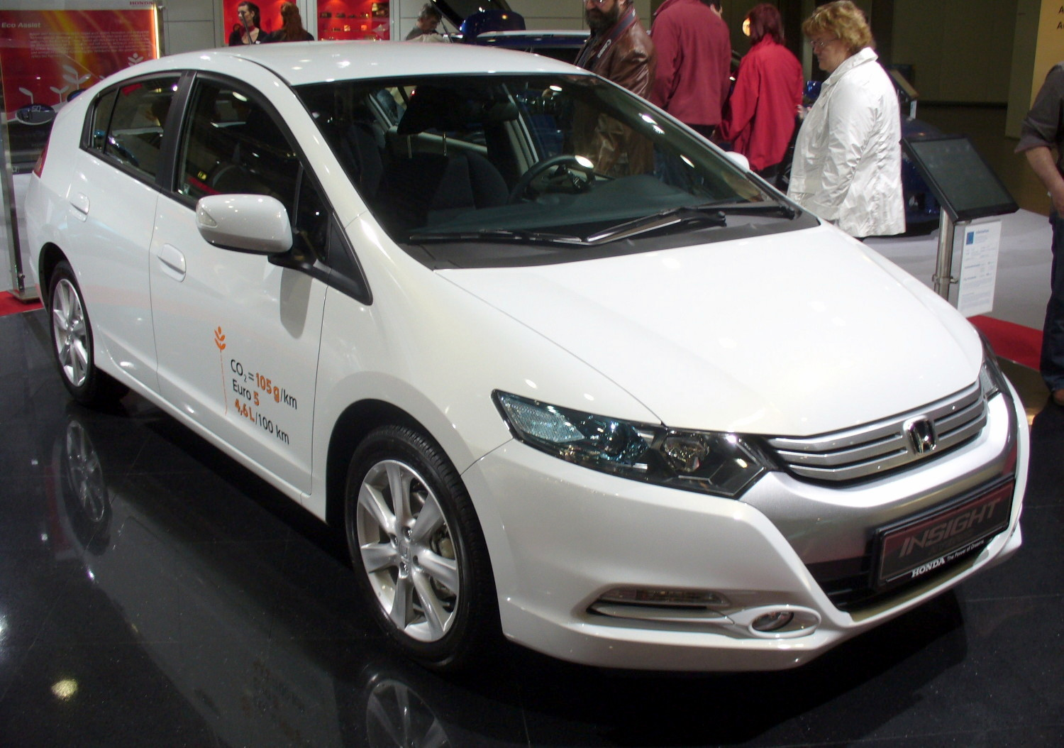 Honda Insight